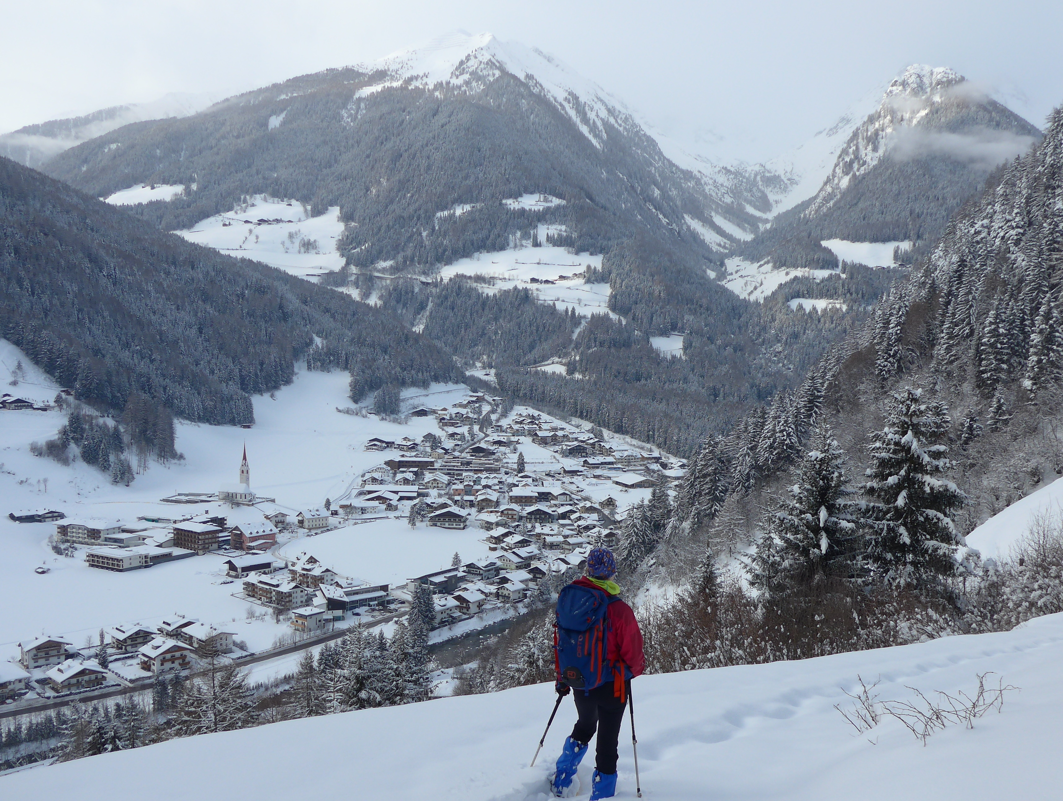 Luttach from south east